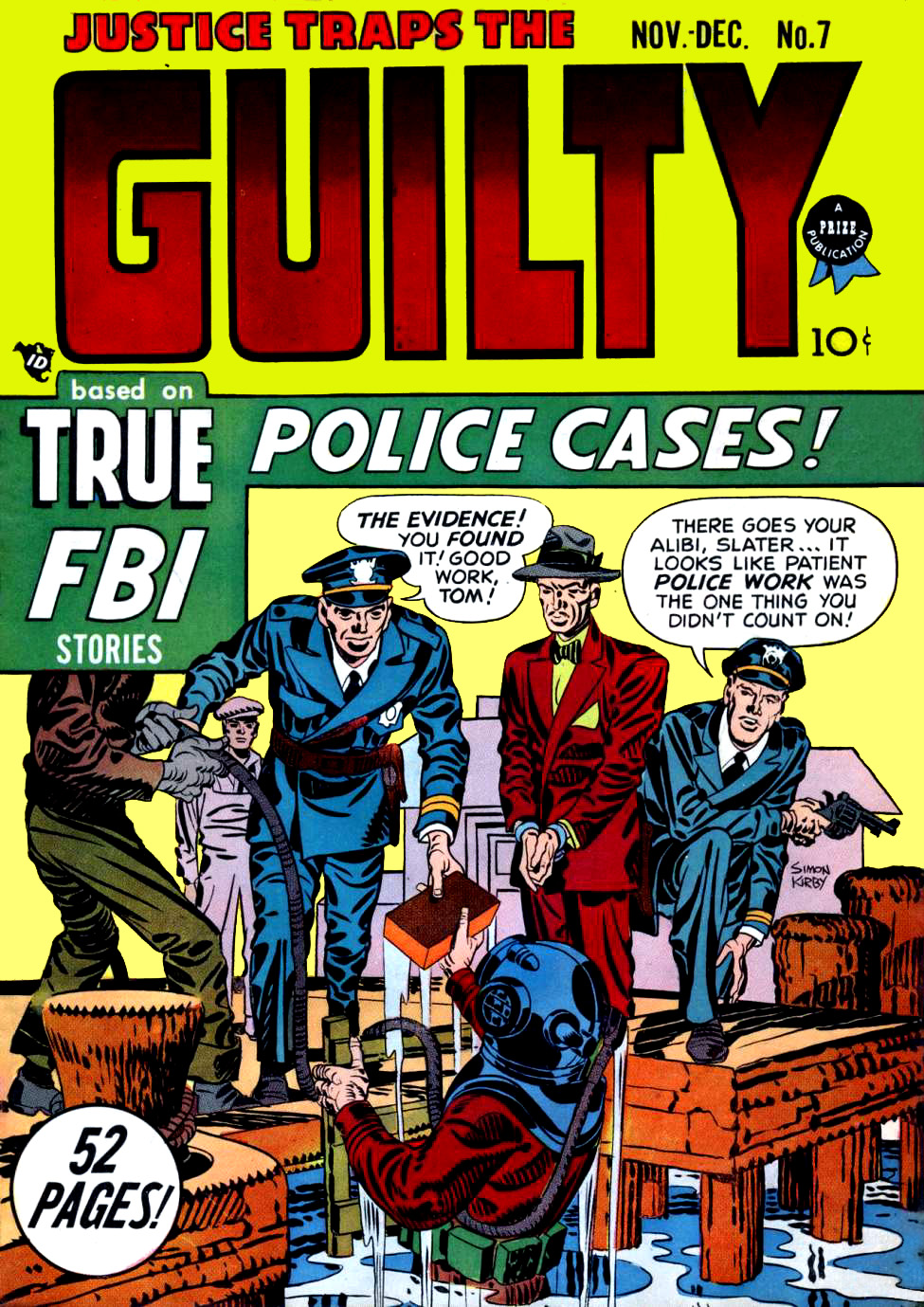 Another knockout cover from Joe Simon and Jack Kirby: Justice Traps the Guilty number 7 (Prize Comics, November 1947). Following the war, the superhero genre went into a steep decline, and publishing companies turned to romance, crime and horror to fill the news stands. Simon and Kirby were pioneers in all three.